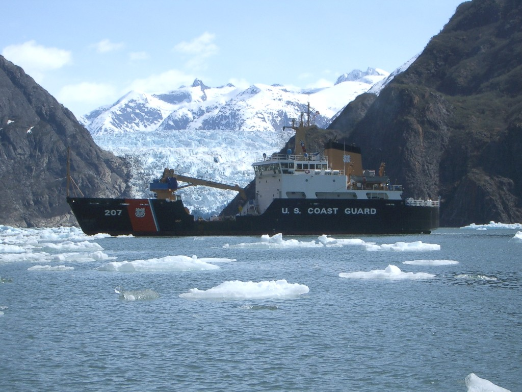 A picture of the USCGC Maple.